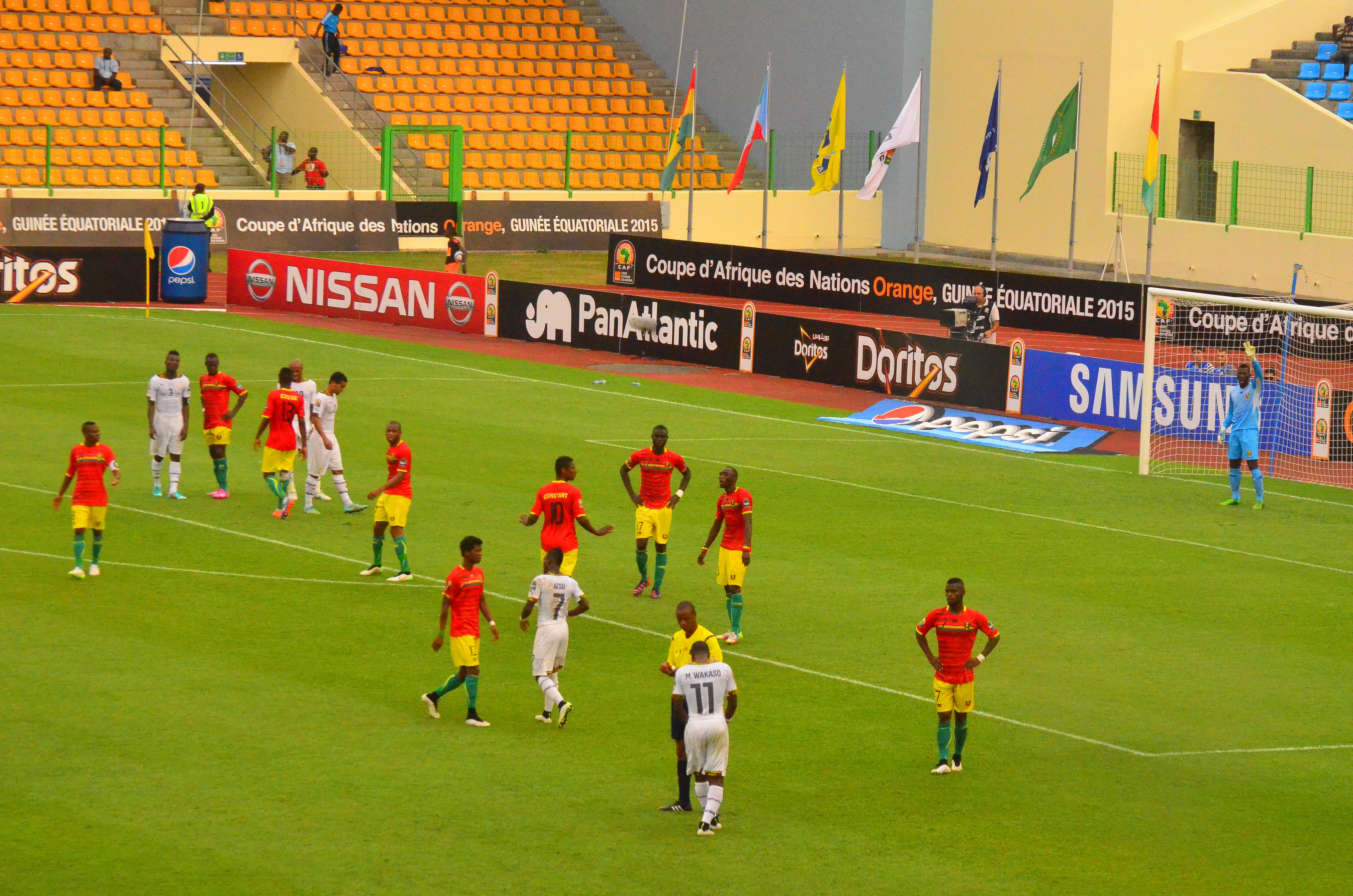 This is a picture of a soccer game (name of it is on file name).